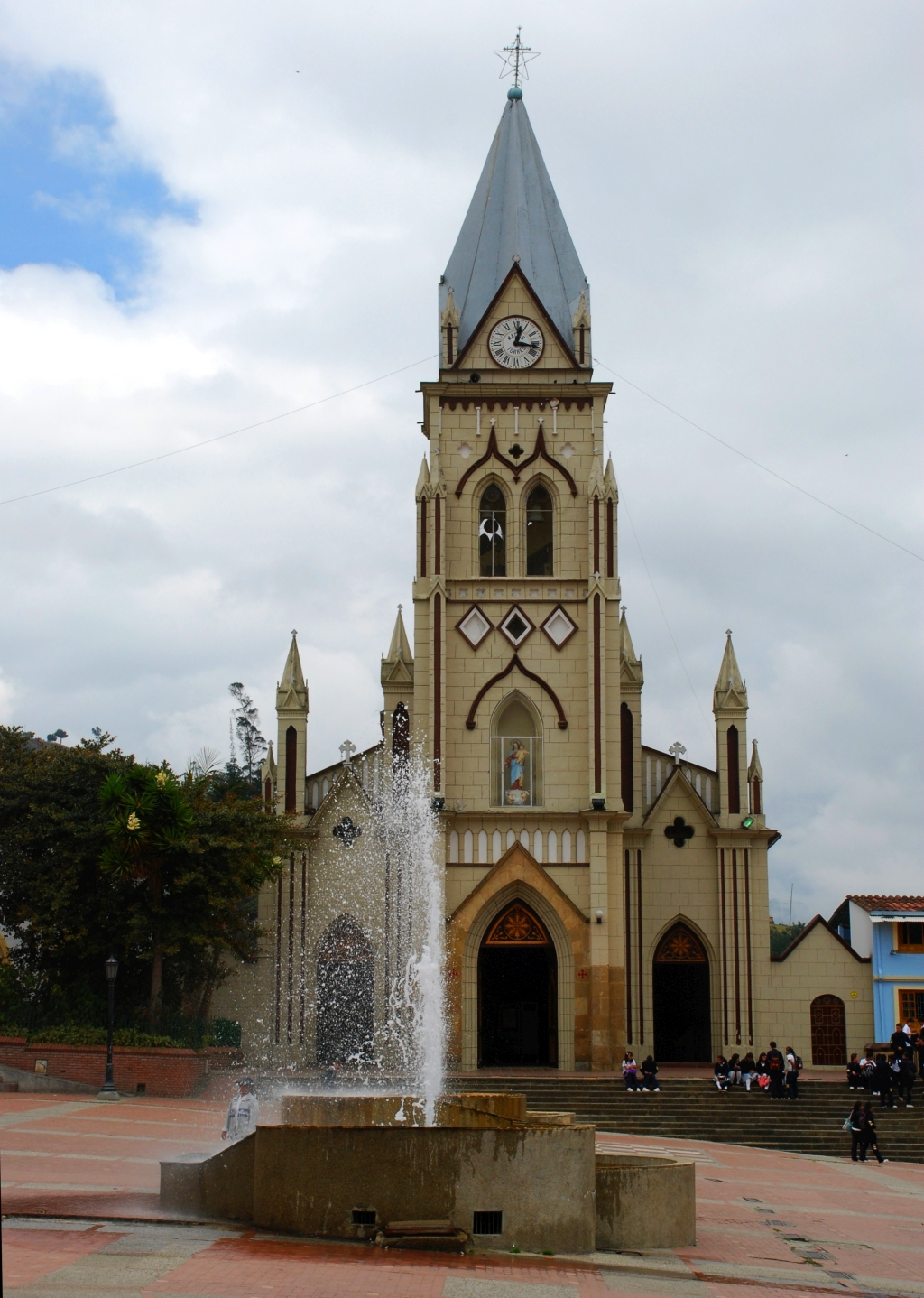 Exterior of the main church in Chipaque, Cundinamarca, Colombia